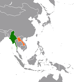 Map showing the locations of both Myanmar and Laos